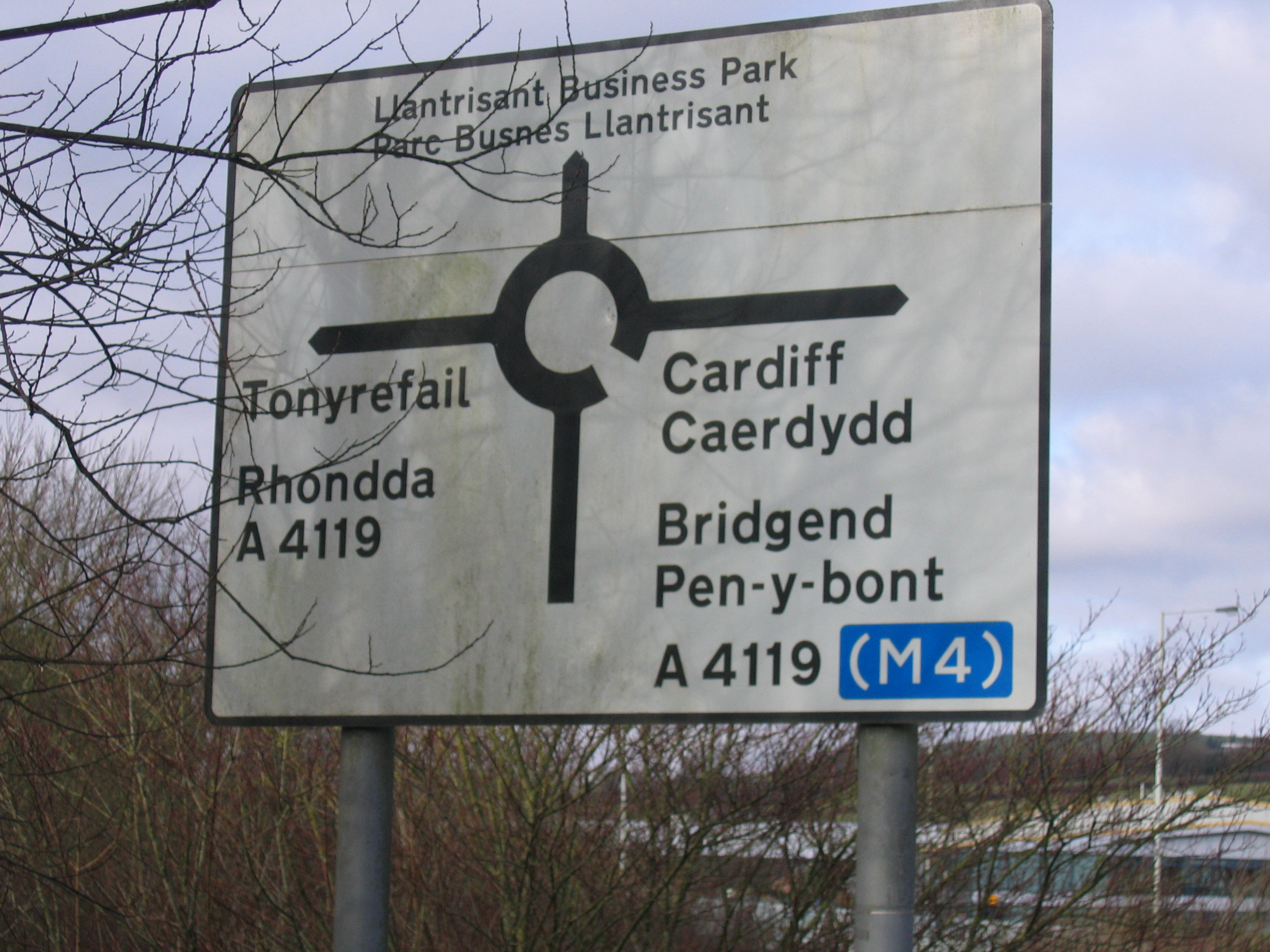 signpost in Talbot Green